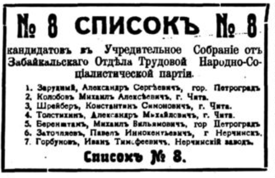 advert for list for the Russian Constituent Assembly election, 1917